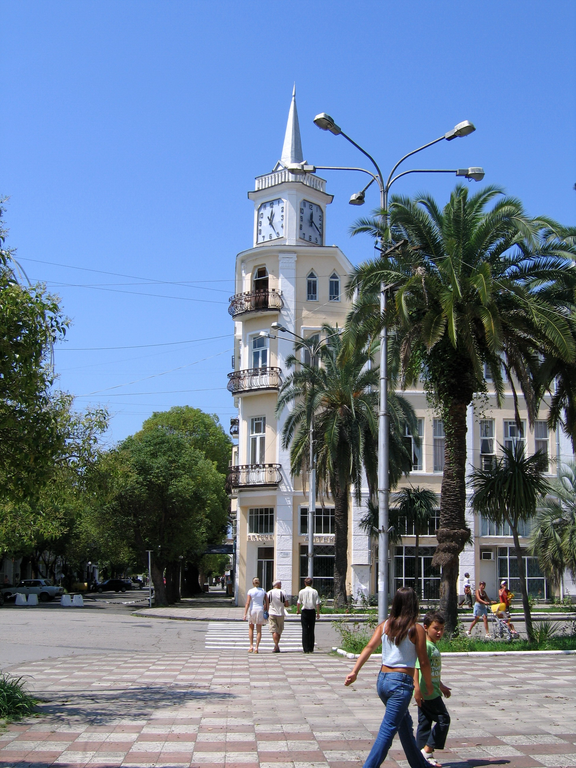 Building of the City Council. Sukhum. Abkhazia